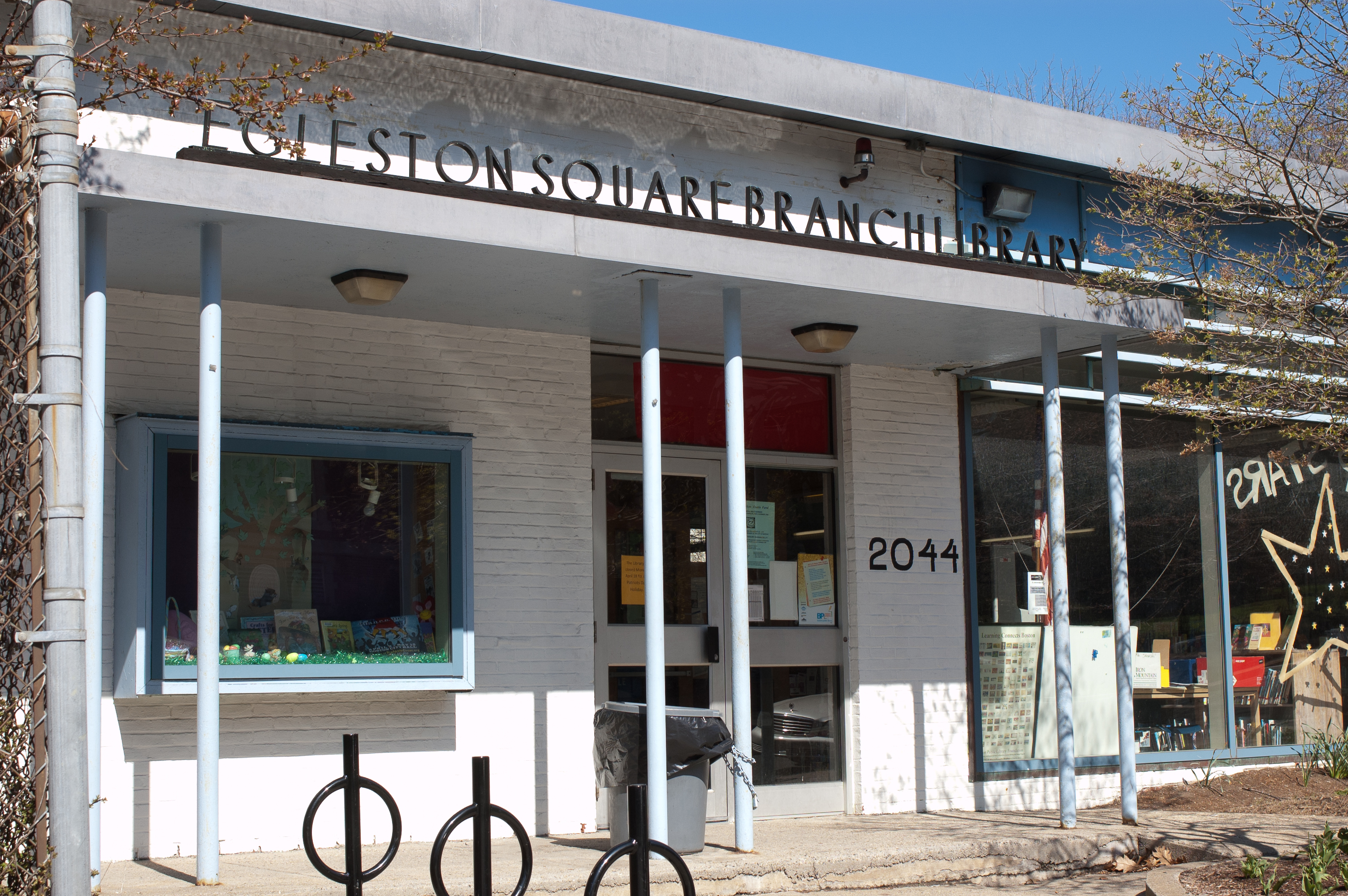 The Egleston Square branch of the Boston Public Library, located at 2044 Columbus Avenue, Roxbury, Massachusetts 02119.